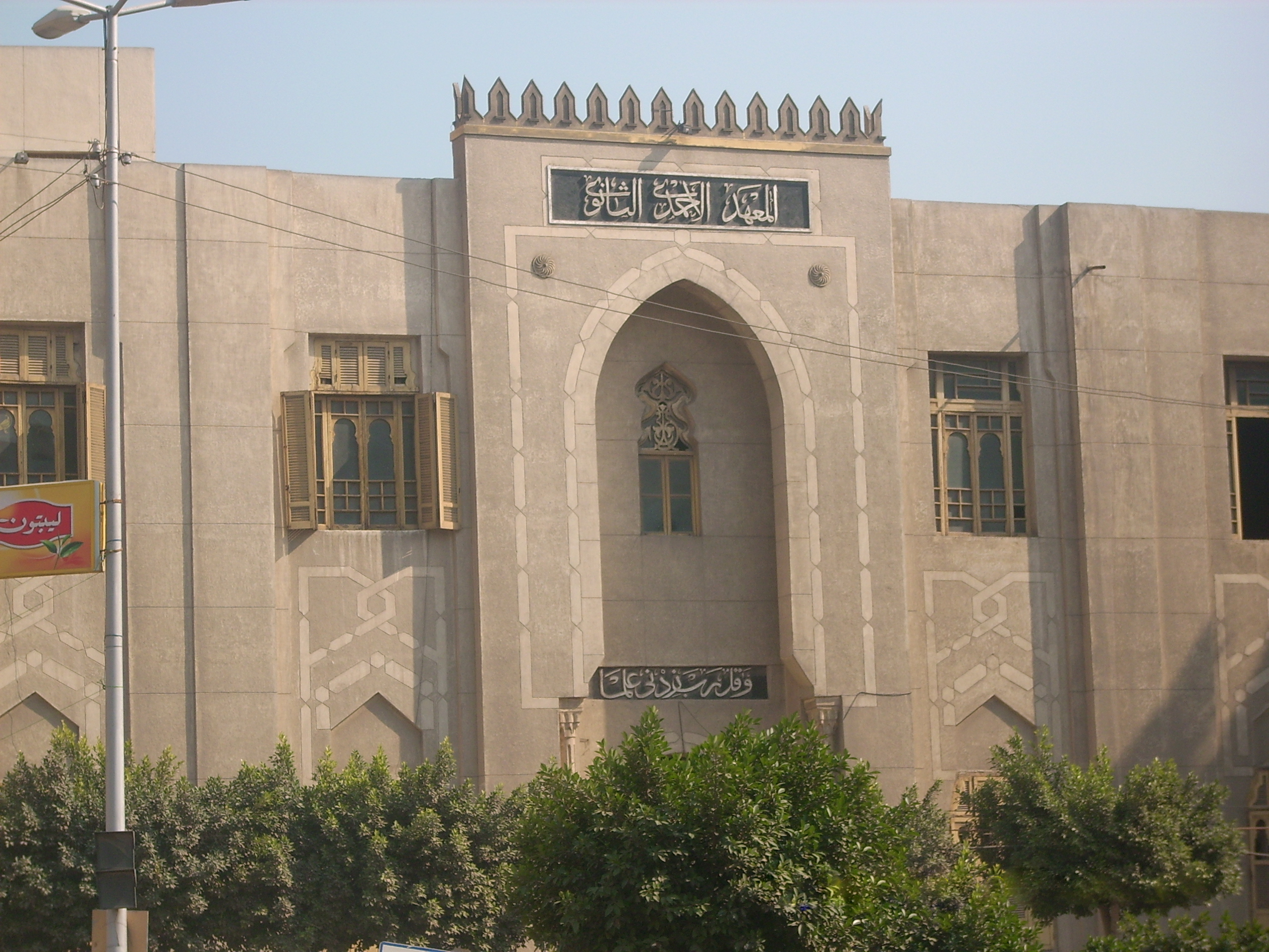 Al-Ahmadi Azhar Institute -Tanta - Egypt